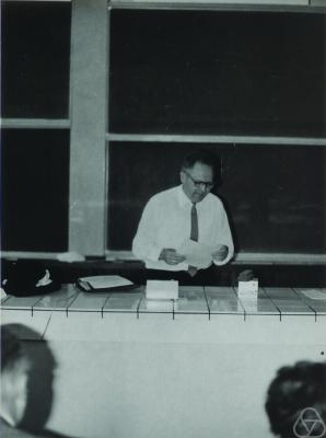 Vasilii Sergeevich Vladimirov in Nice